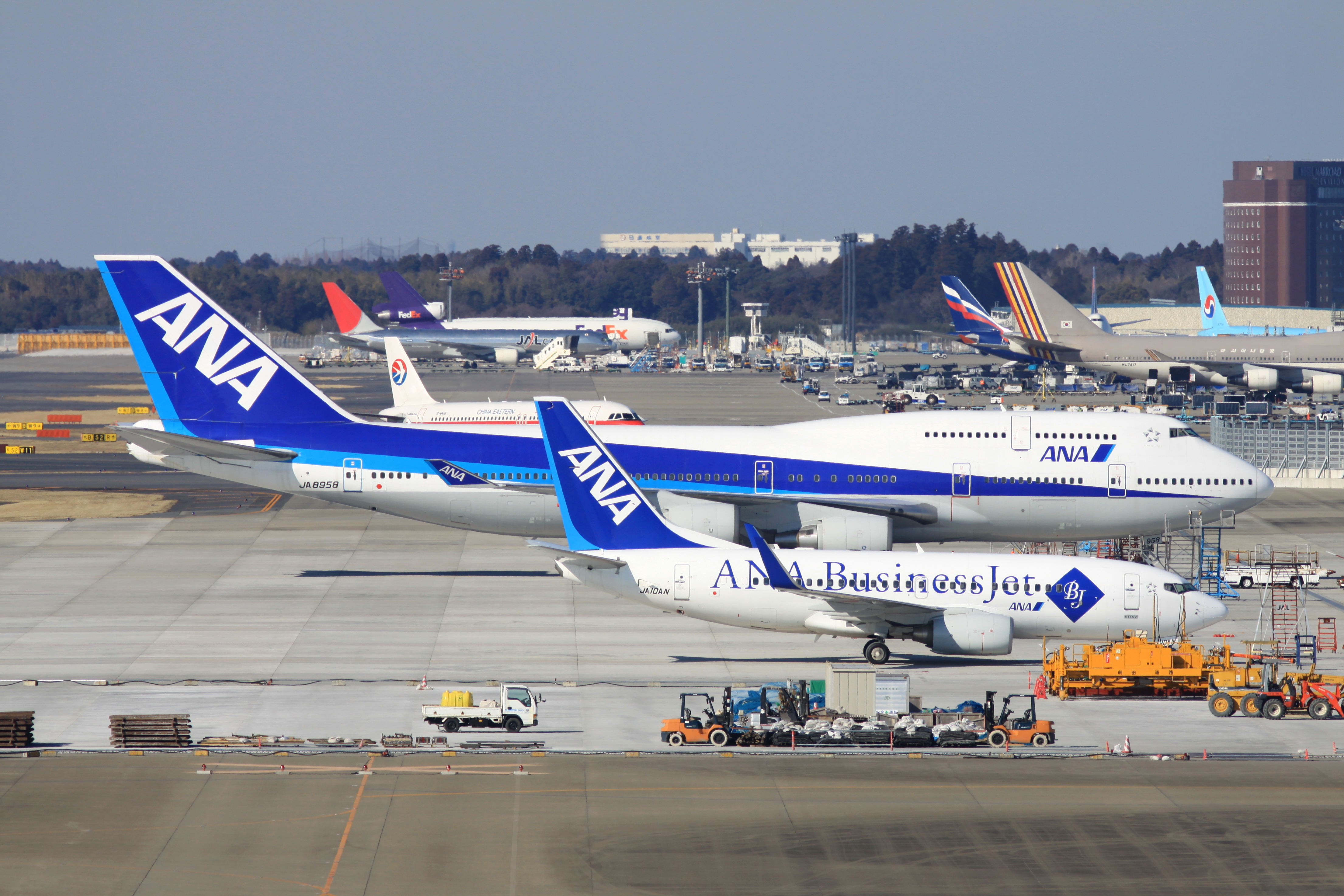 Narita International Airport, Spot 801 to 803, Boeing 737-781ER, c/n:33879, All Nippon Airways